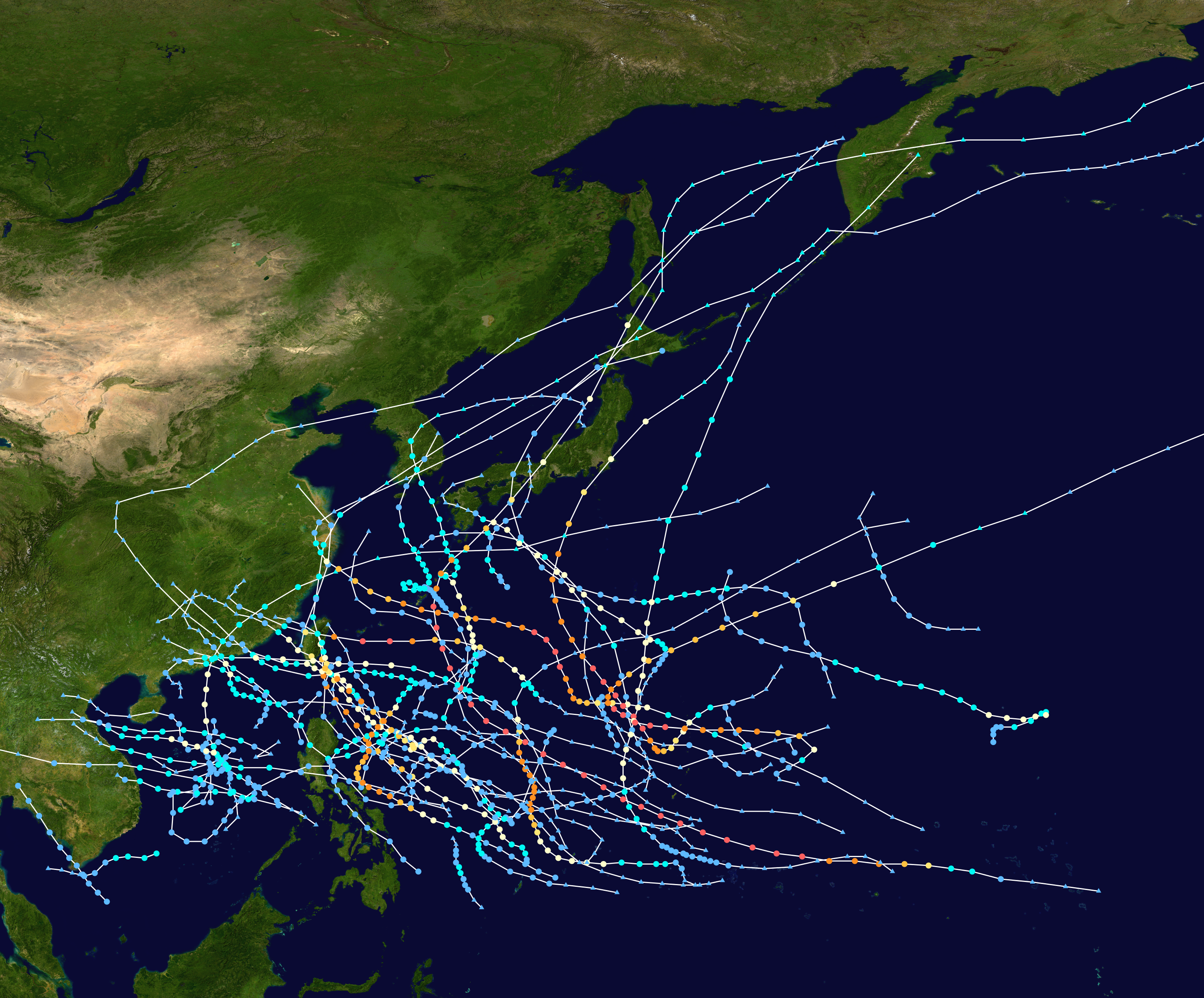 This map shows the tracks of all tropical cyclones in the 1961 Pacific typhoon season. The points show the location of each storm at 6-hour intervals. The colour represents the storm's maximum sustained wind speeds as classified in the Saffir-Simpson Hurricane Scale (see below), and the shape of the data points represent the nature of the storm. Saffir–Simpson hurricane wind scale Tropical depression≤38 mph≤62 km/h Category 3111–129 mph178–208 km/h Tropical storm39–73 mph63–118 km/h Category 4130–156 mph209–251 km/h Category 174–95 mph119–153 km/h Category 5≥157 mph≥252 km/h Category 296–110 mph154–177 km/h Unknown Storm typeTropical cycloneSubtropical cycloneExtratropical cyclone / Remnant low / Tropical disturbance